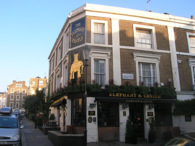 Elephant and Castle Public House, Holland Street, London W8 At Junction with Gordon Place